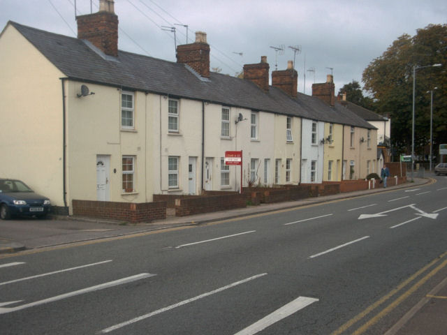 Houses in Walton, Aylesbury in Aylesbury, Buckinghamshire